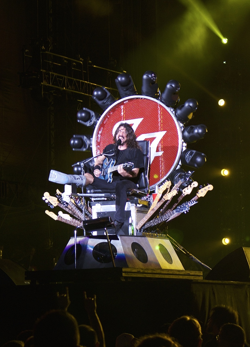 Foo Fighters performing at Fenway Park in Boston, MA on July 18, 2015.